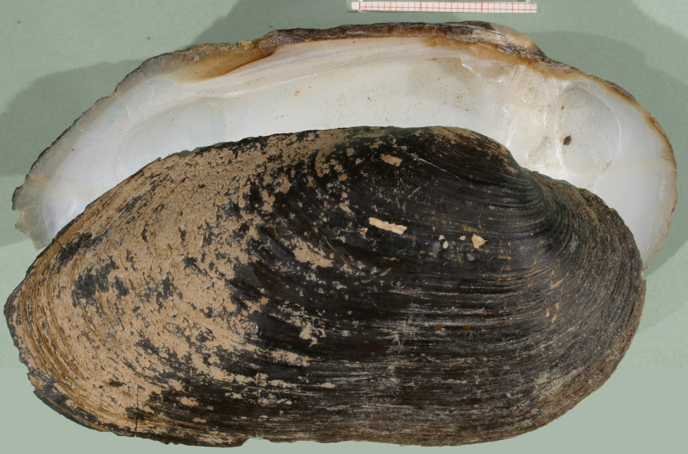 Spengler's freshwater mussel (Margaritifera auricularia or Pseudunio auricularia). Scale is in mm. Locality: Spain: Ebro near Sastago, province of Zaragoza. Date: before 1930, collected by F. Haas.